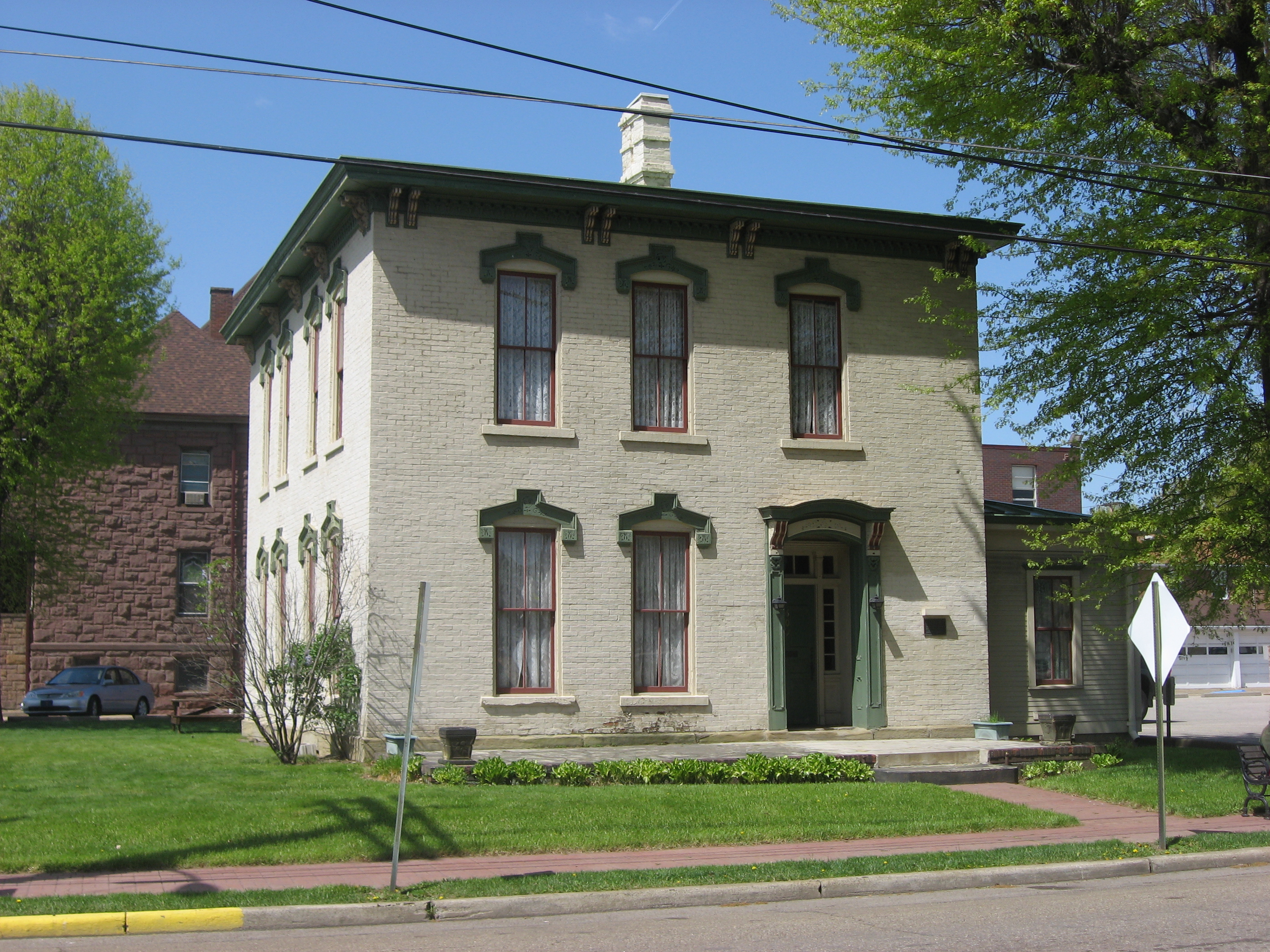 Front of the Ferrell-Holt House, located at 609 Jefferson Avenue in Moundsville, West Virginia, United States. Built in 1877 and now the home of the Moundsville Chamber of Commerce, it is listed on the National Register of Historic Places.